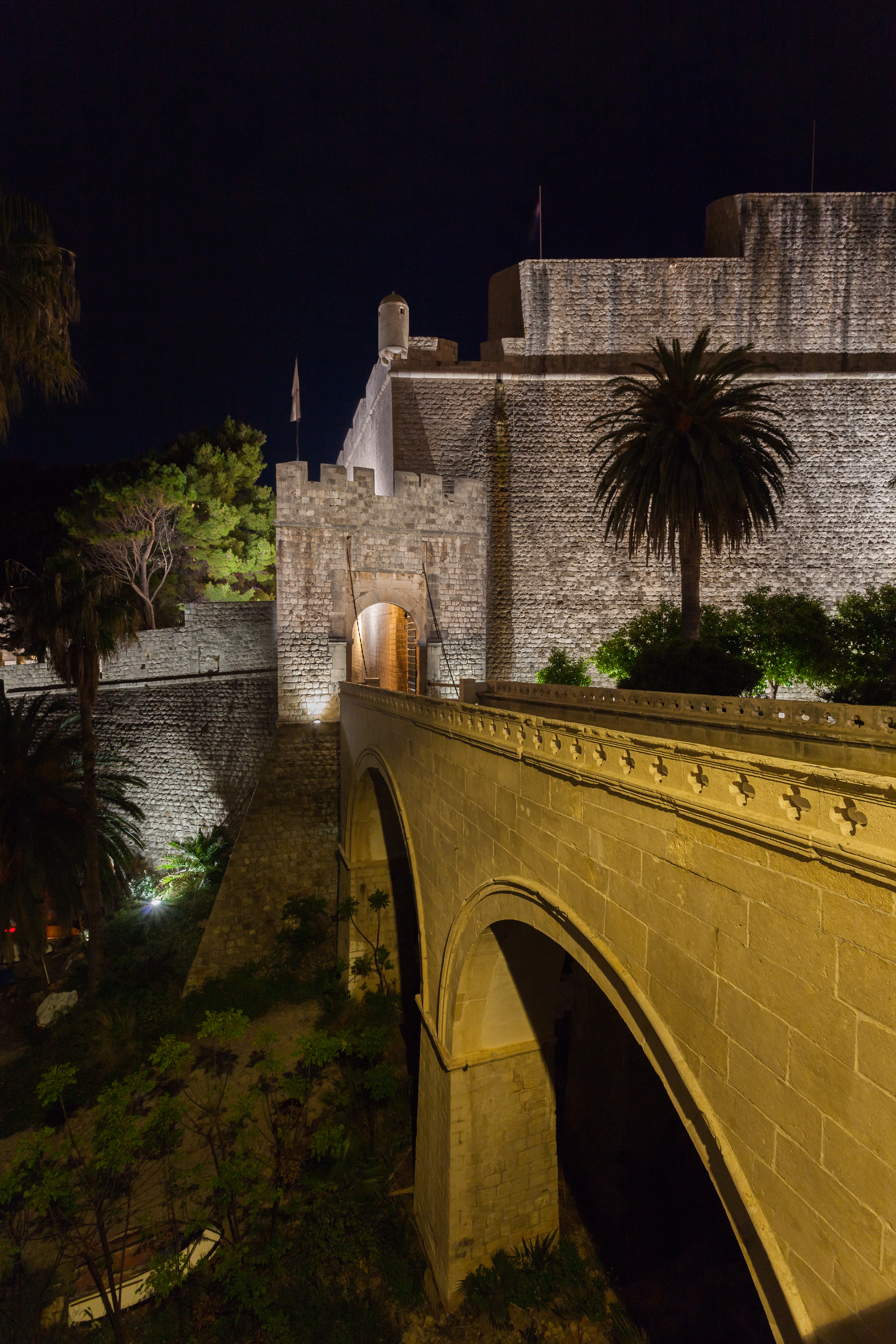 Ploče Gate, old city of Dubrovnik, Croatia